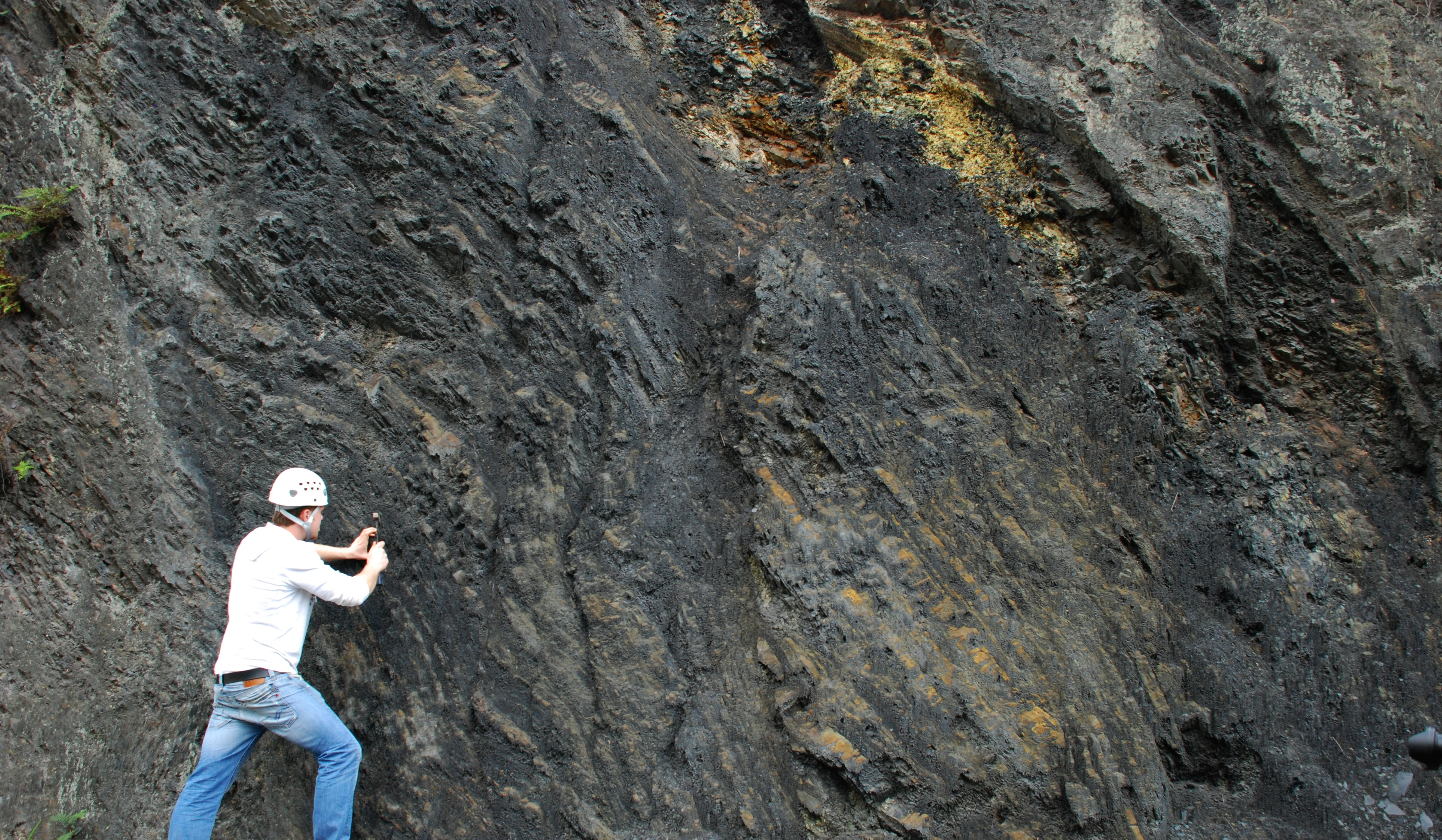 Outcrop of the heavily fractured and folded Macanal Formation along the road from Bogotá to Villavicencio, Eastern Ranges, Colombia